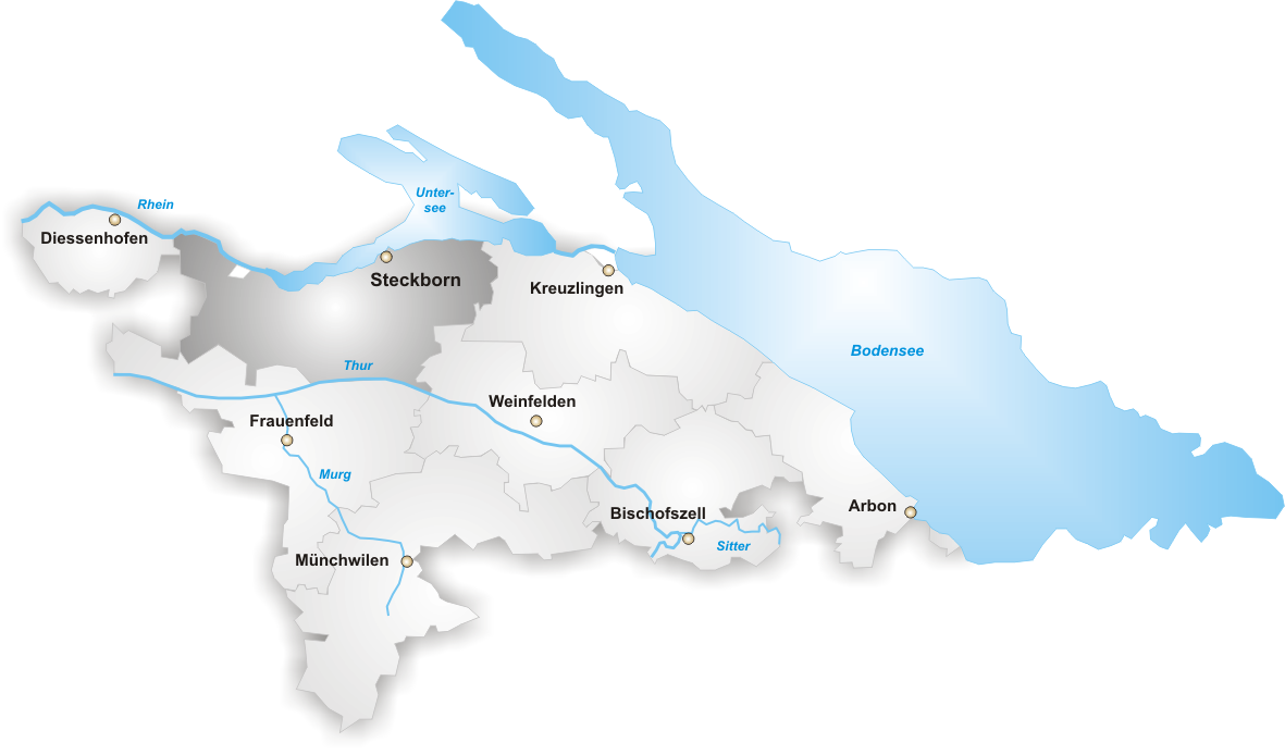 District Steckborn